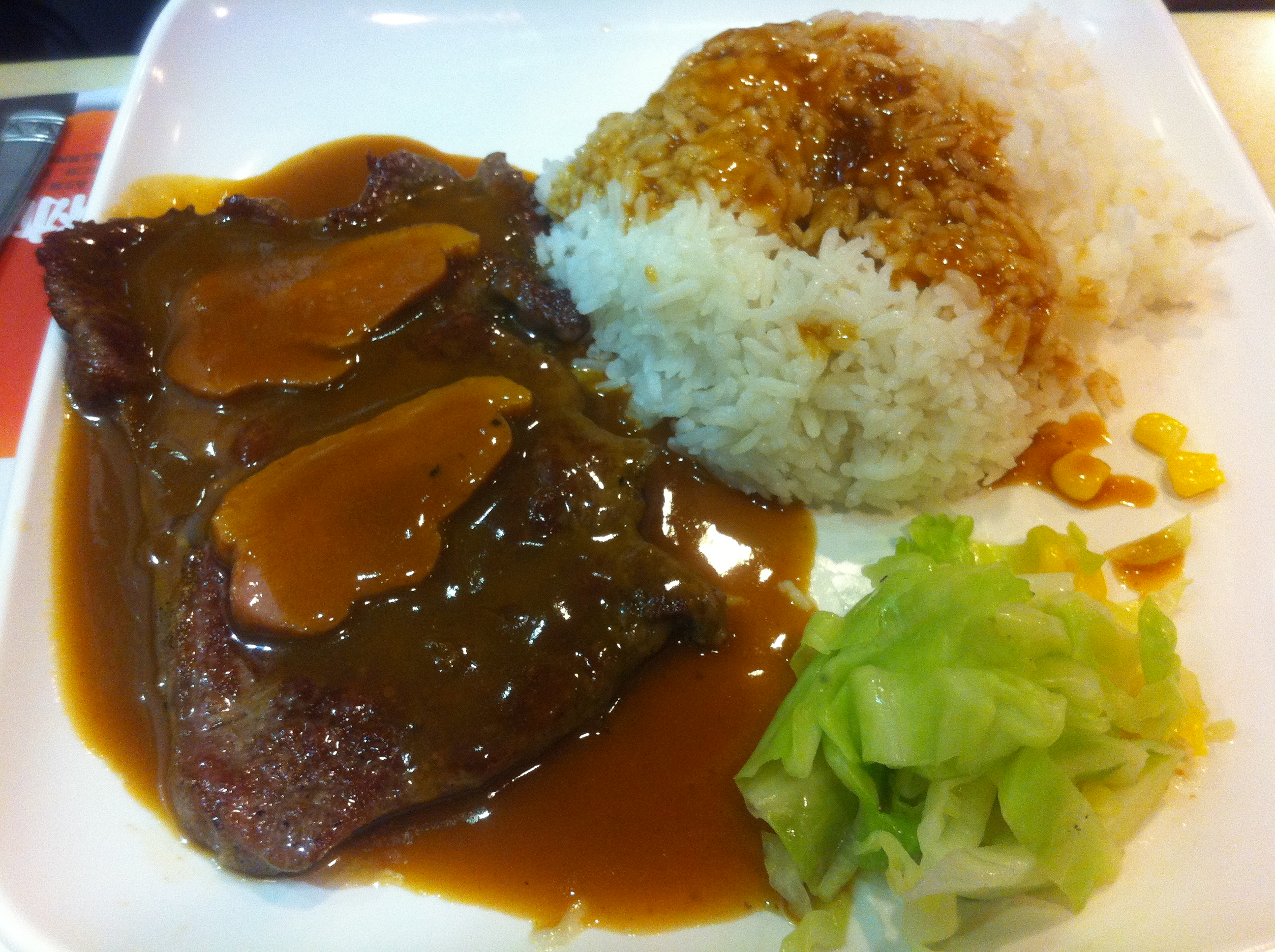 茶餐廳 in Hennessy Road, Wan Chai, Hong Kong